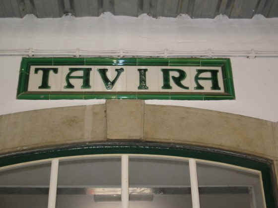 Railway Station Tavira